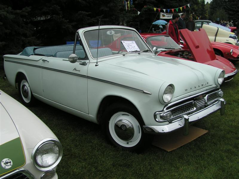 Hillman Minx Convertible spotted at VSCCC European Classic Car Show.